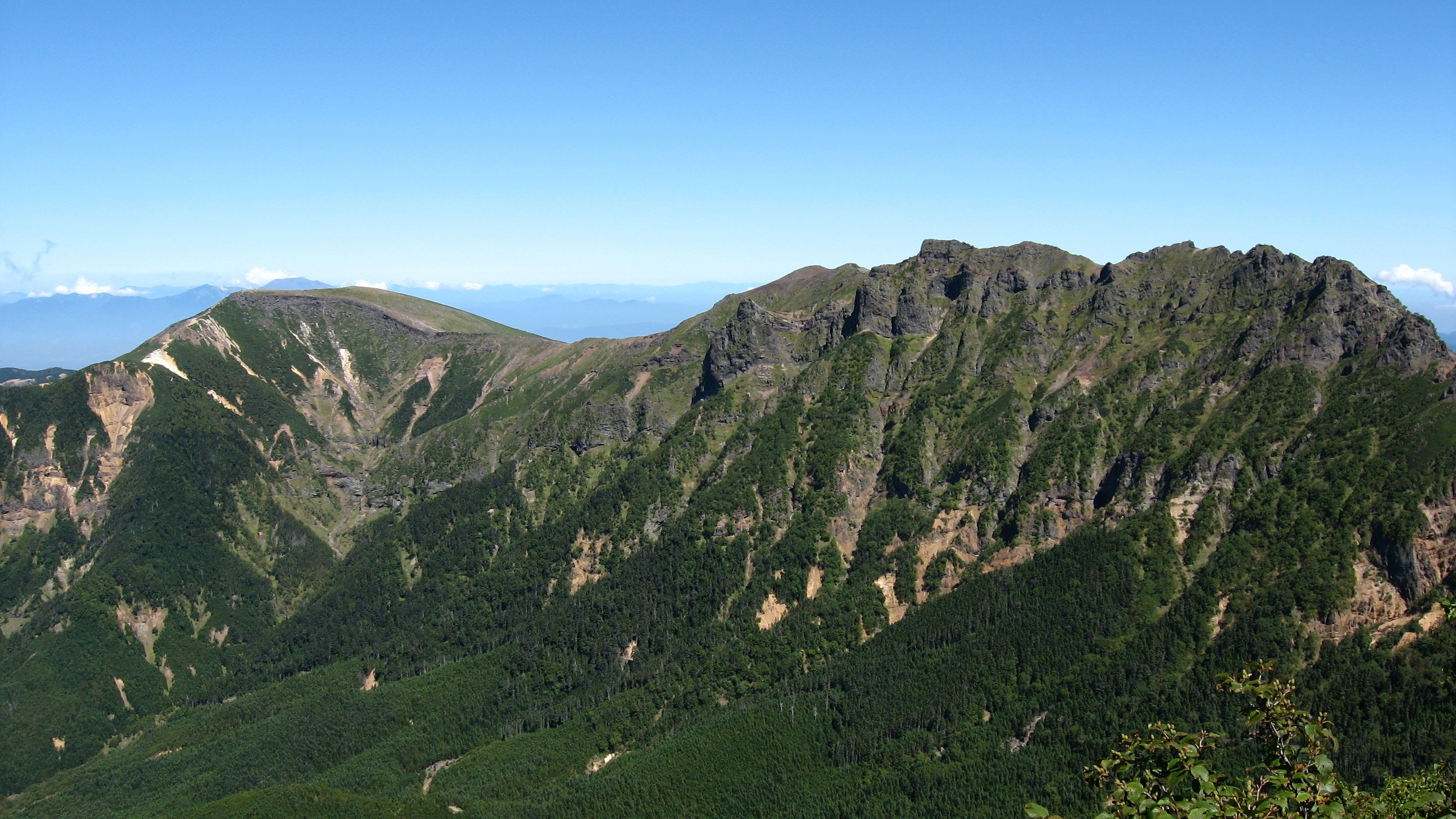 Io-dake (left) and Yoko-dake (right) seen from Amida-dake